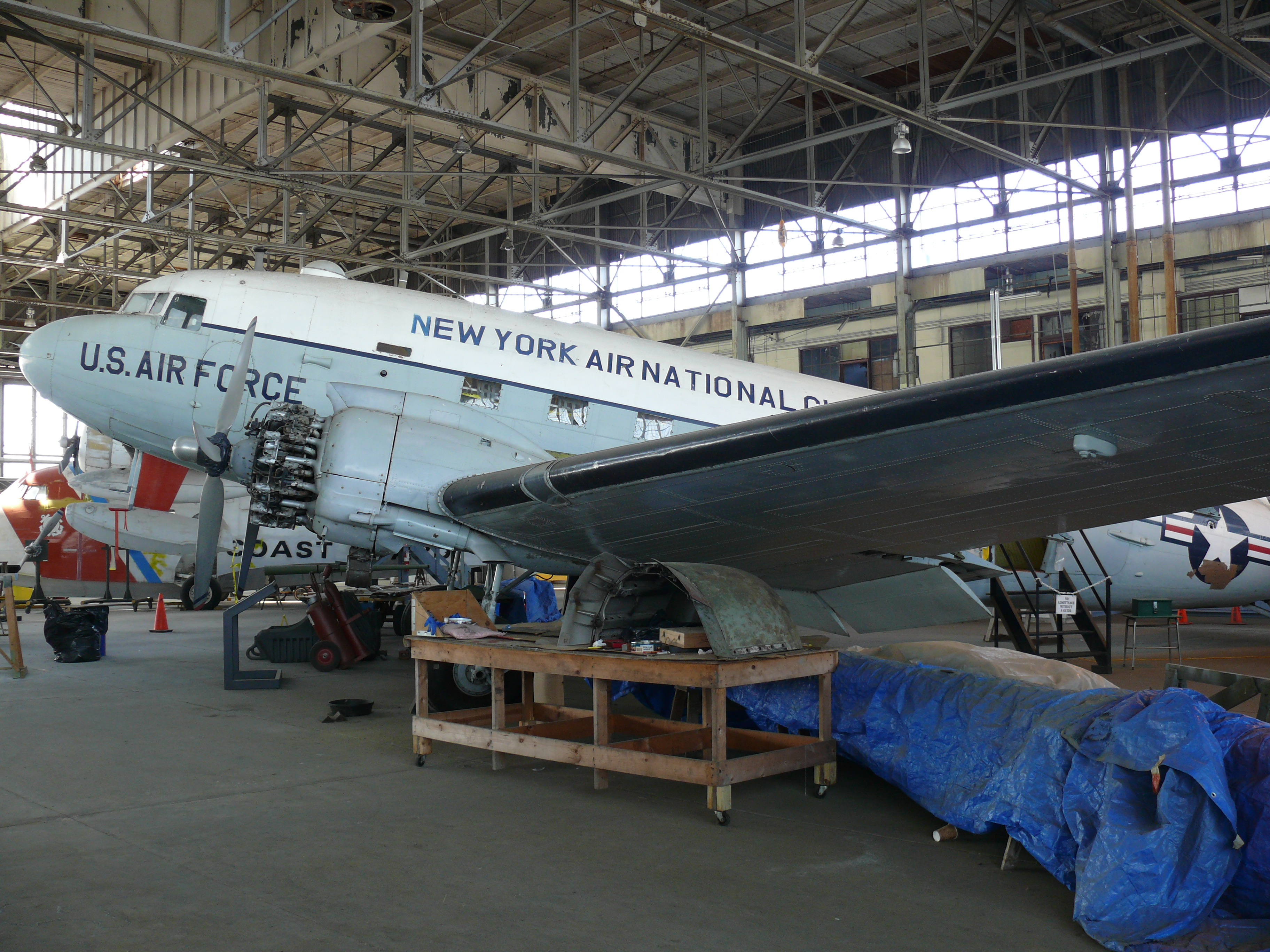 Douglas C-47B-25-DK Skytrain (Dakota) AF 44-76457 (cn 16041/32789) in the Historic Aircraft Restoration Project on Floyd Bennett Field (hangar B) in the Gateway National Recreation Area (NY, NJ). The C-47 Skytrain or Dakota is a military transport aircraft that was developed from the Douglas DC-3 airliner.